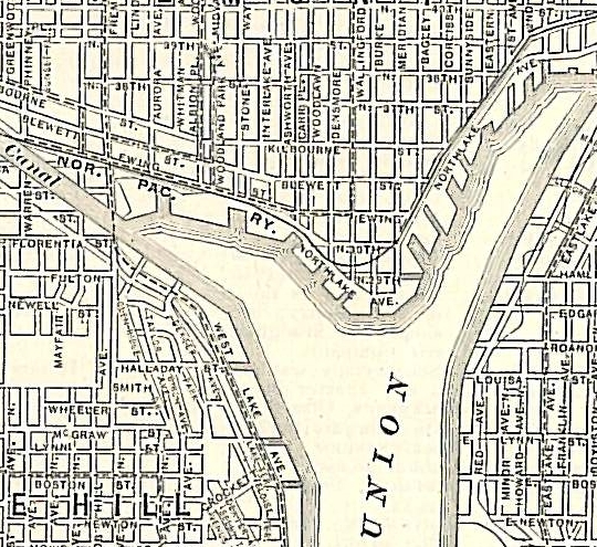 North Lake Union Seattle, Washington, 1911. Many of the east-west street names have since changed, and a few near the lake have been somewhat rerouted, but the north-south avenues and 40th Street make this easy to compare to any present-day map.